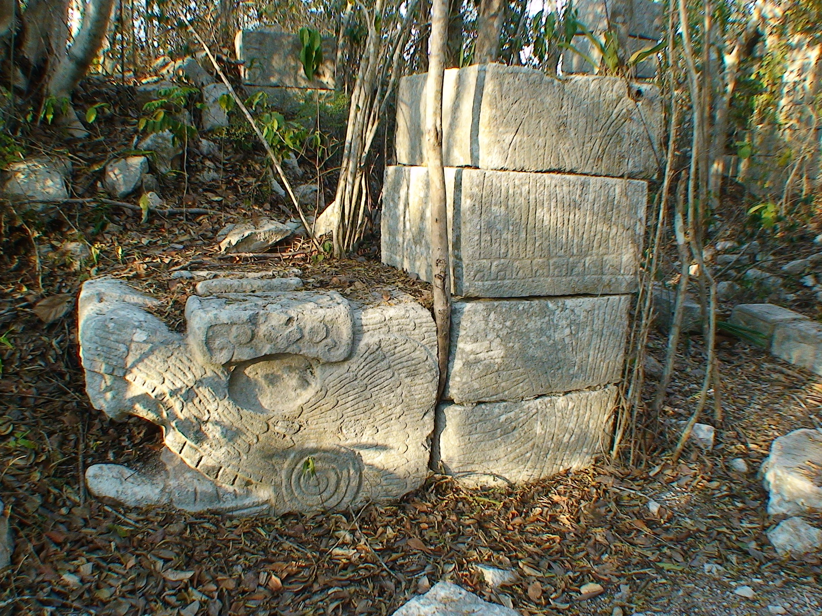 Chichen Itza, Yucatan, Mexico: Templo de las mesitas, Snake pillar at the entrance